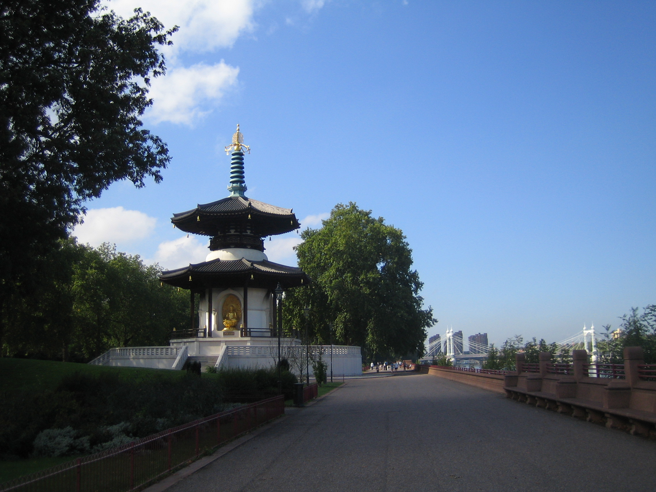 Peace Pagoda, Battersea Park, London, UK